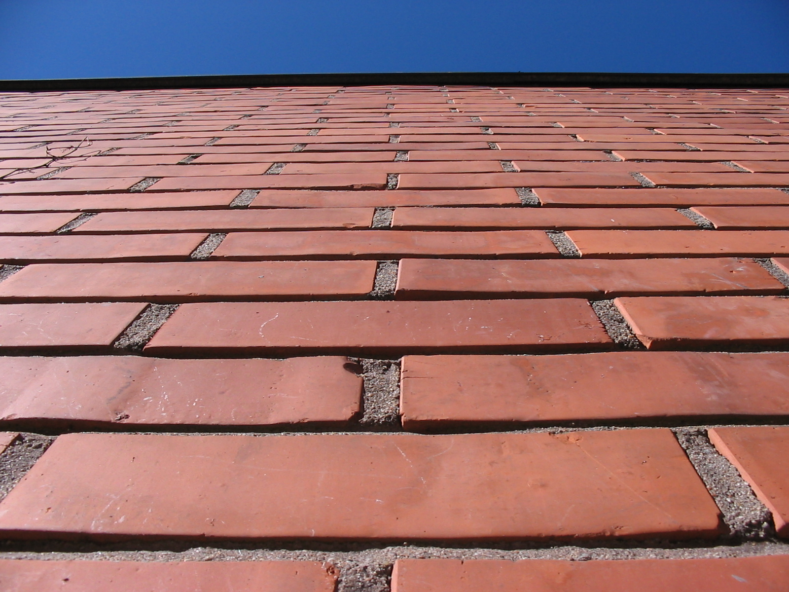 non perfect wall